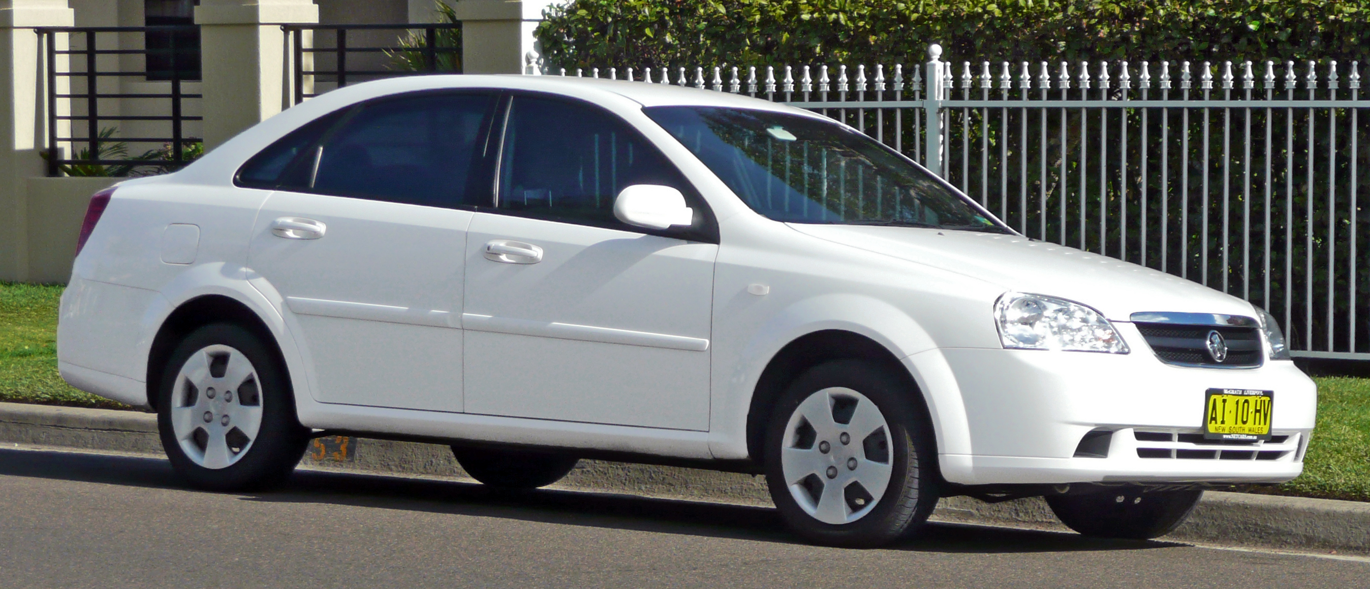 2005–2007 Holden Viva (JF) sedan. Photographed in Cronulla, New South Wales, Australia.